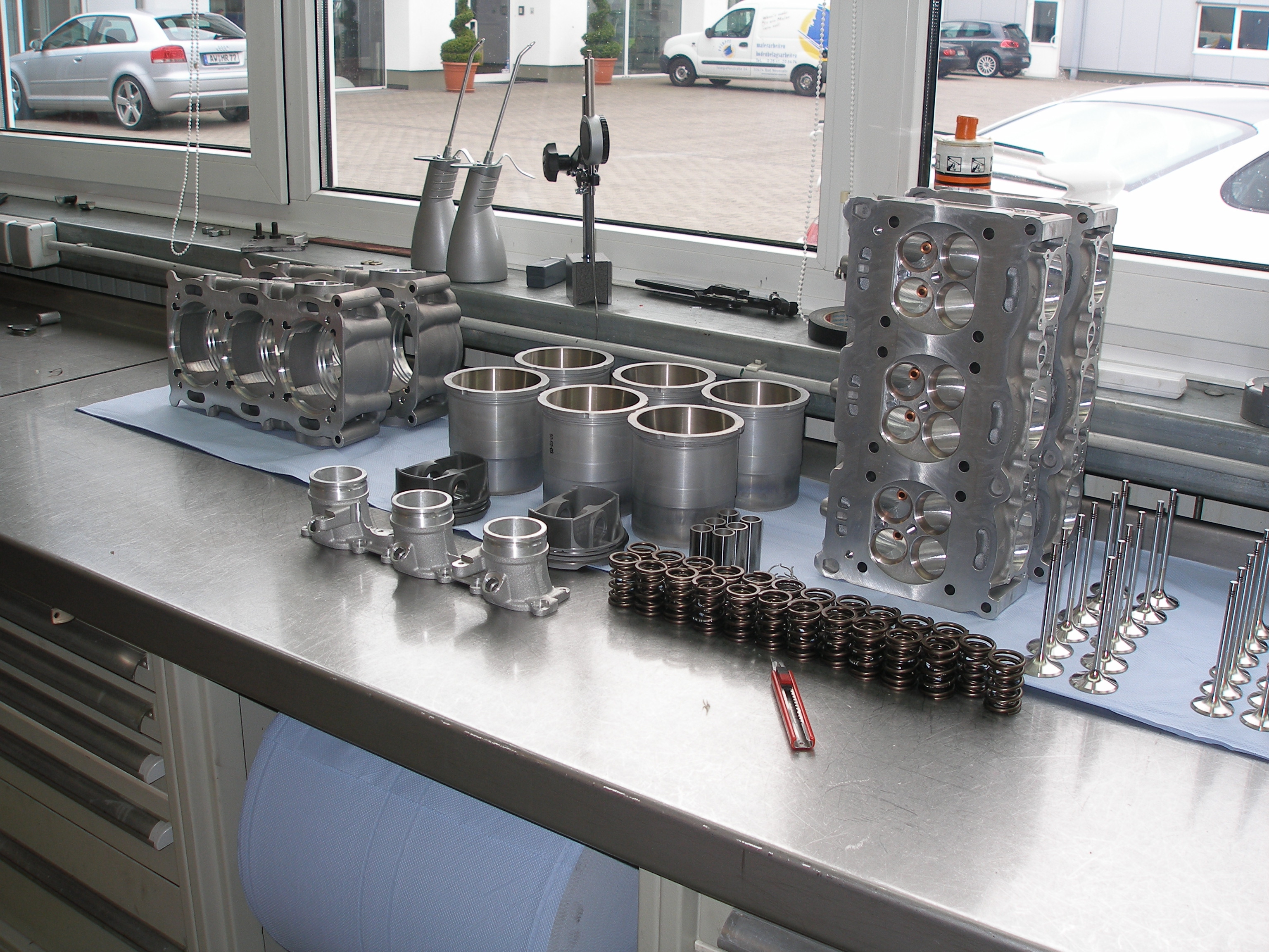 Porsche GT3 engine rebuild at Manthey Racing